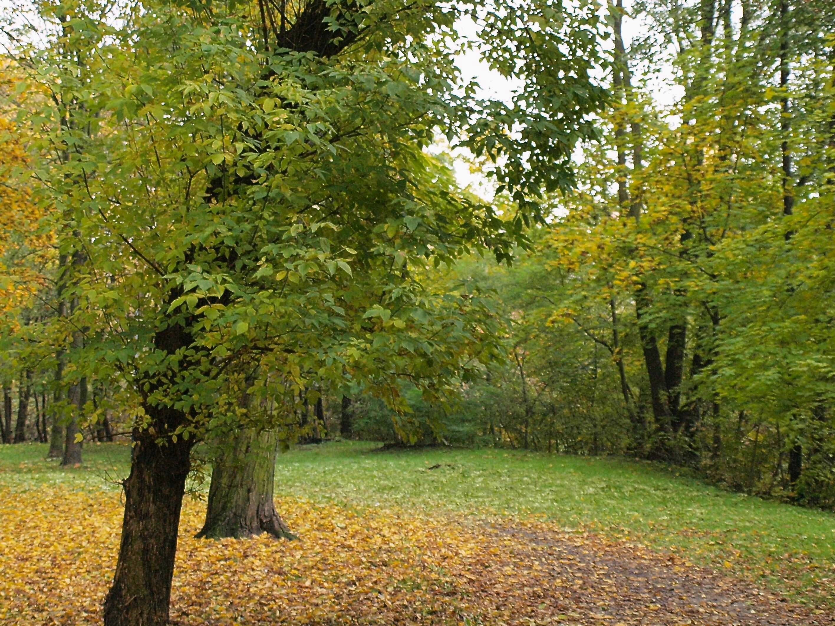 Cracow, Jerzmanowski's Park